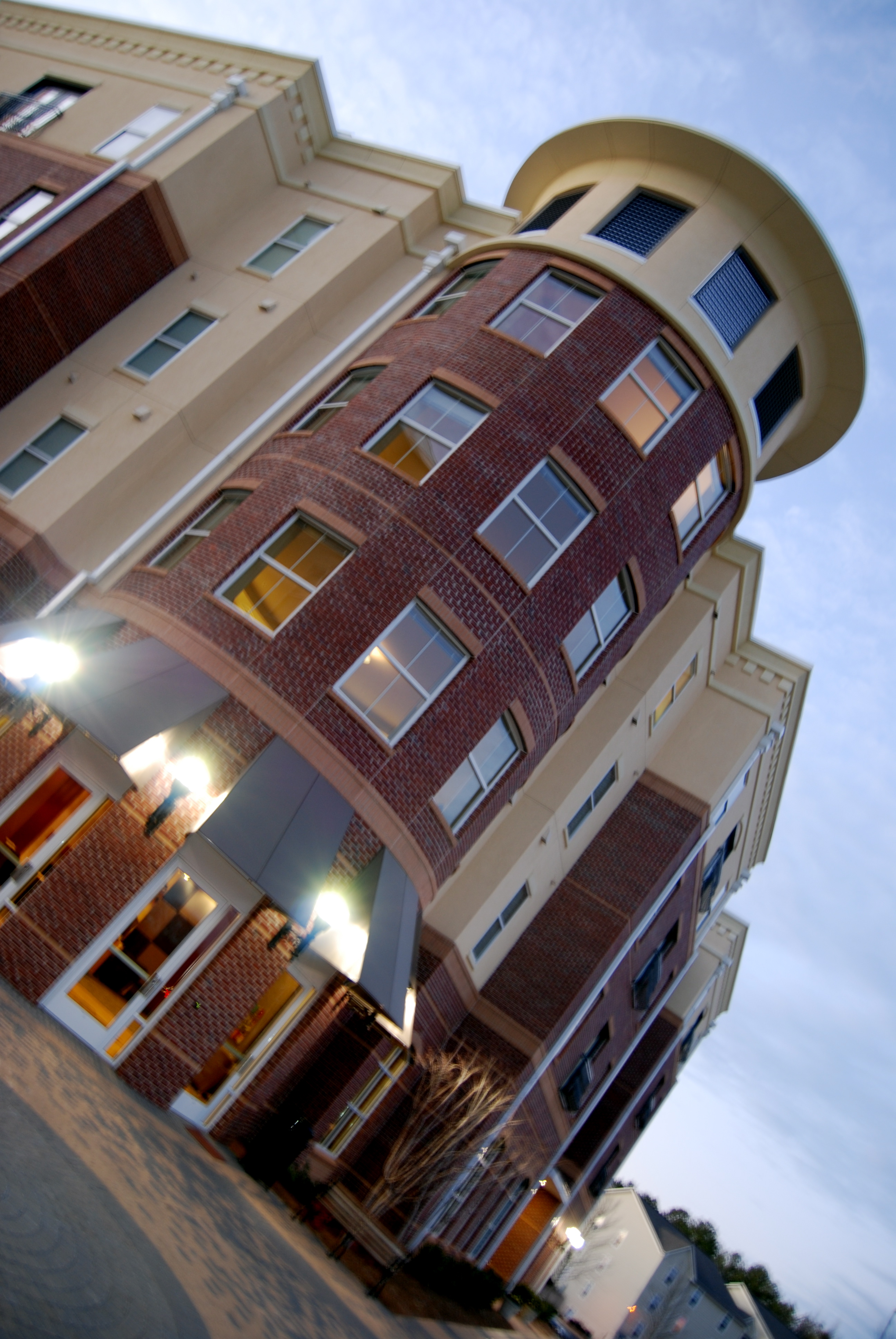 Kennesaw State University University Village Apartments at dusk.